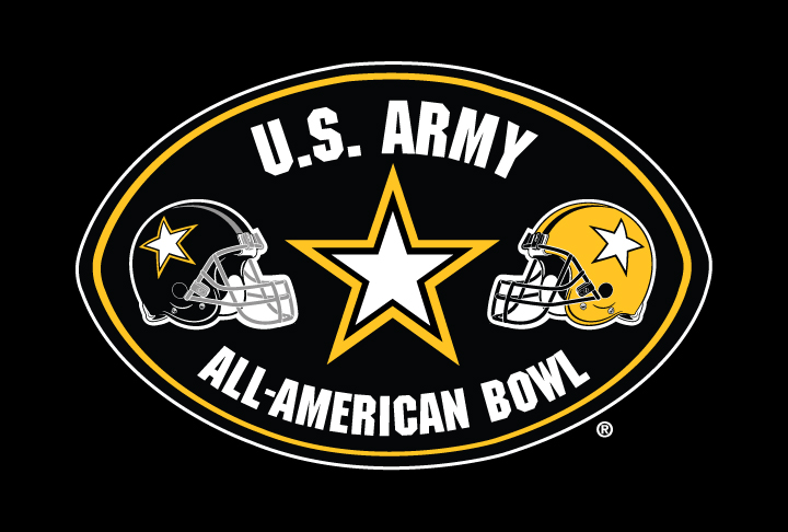 Logo